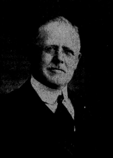 John Coulter (1851-1928) (Original source Brooklyn Botanic Garden.)